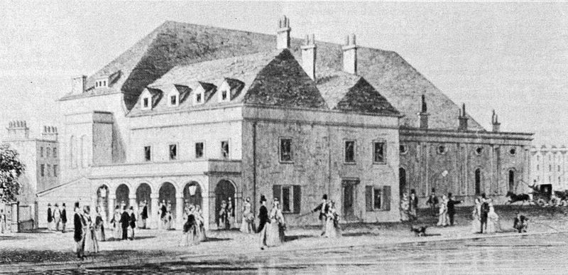 Old Sadler's Wells Theatre in 1879